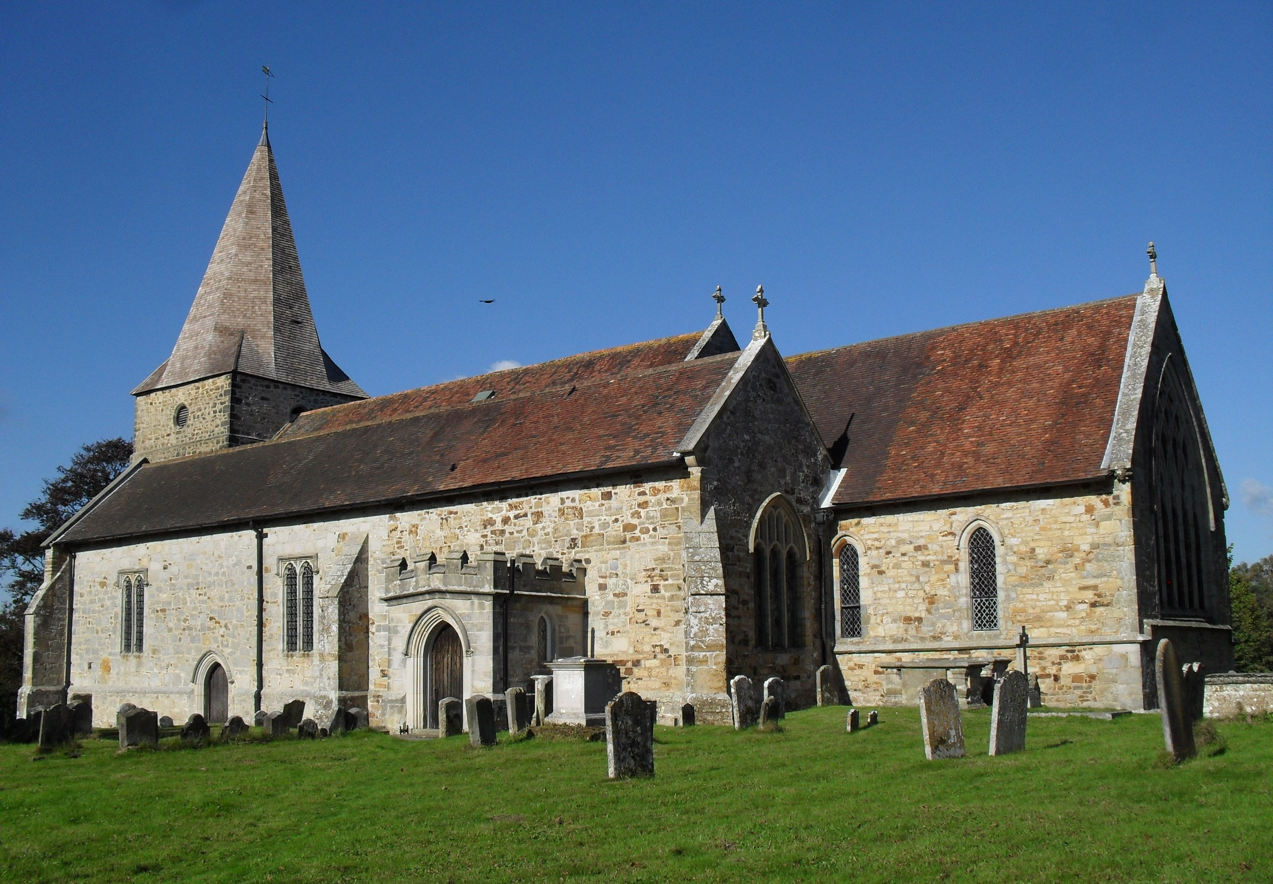 St Margaret the Queen's Church, Buxted Park, Buxted, Wealden, East Sussex, England. Built in about 1250 and dedicated to Queen Margaret of Scotland. Listed at Grade I by English Heritage (IoE Code 295917)